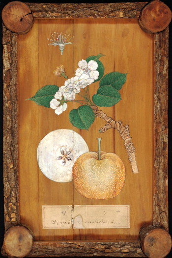 Pear wood (Pyrus communis), Japanese wood panel (1874), Economic Botany Collection, Royal Botanic Gardens, Kew